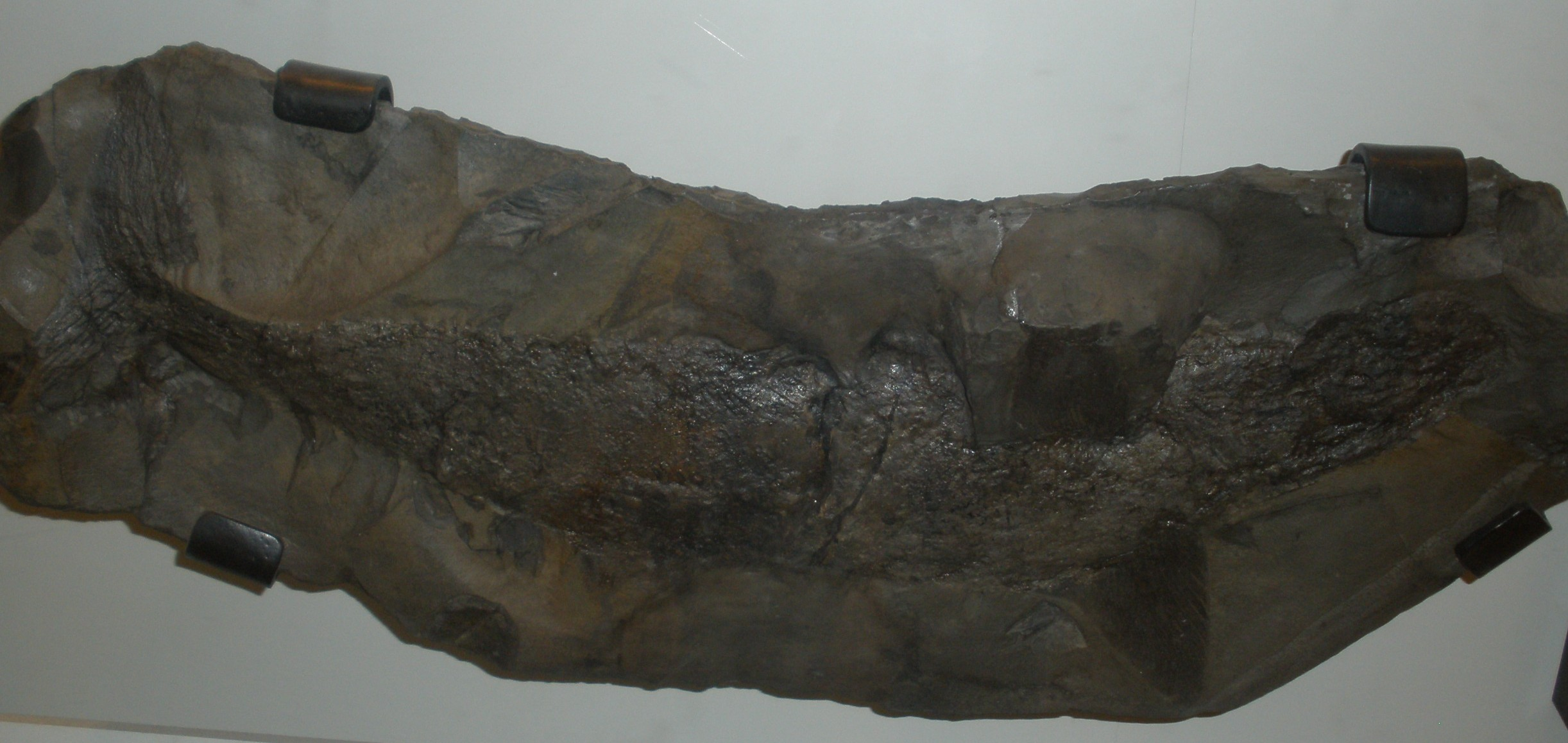 Skeleton of Cladoselache fyleri, a fossil shark